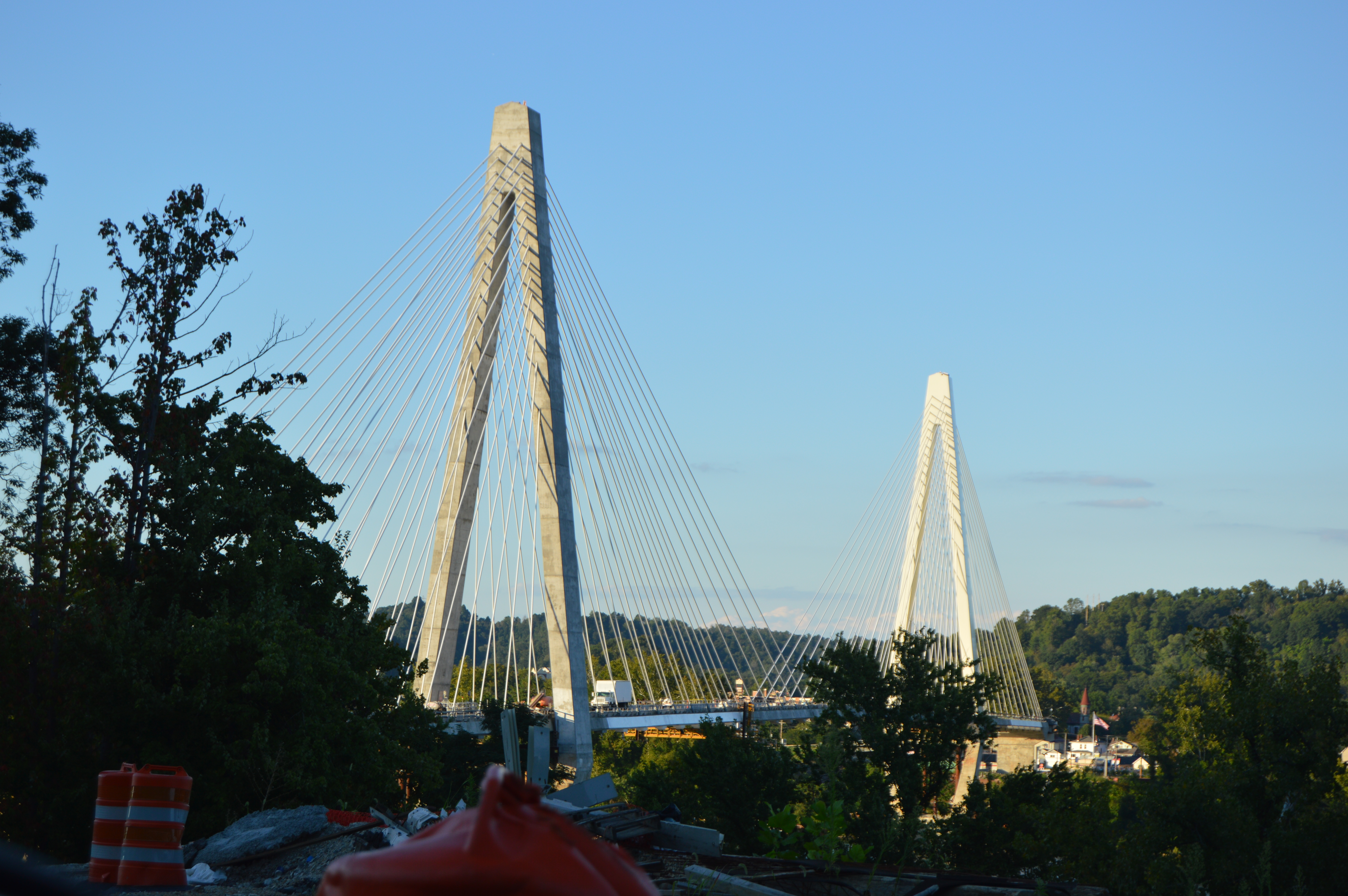 Overview from the south (from the northbound lanes of U.S. Route 23) of the new Ironton-Russell Bridge (not yet complete), which spans the Ohio River and will connect Russell, Kentucky and Ironton, Ohio, in the United States.